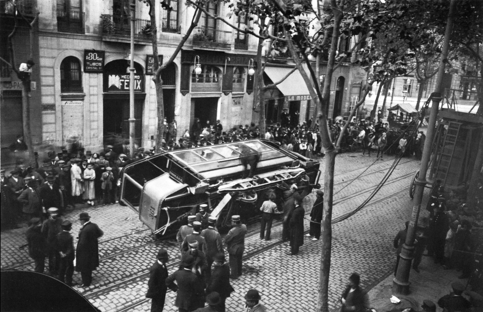 See below.